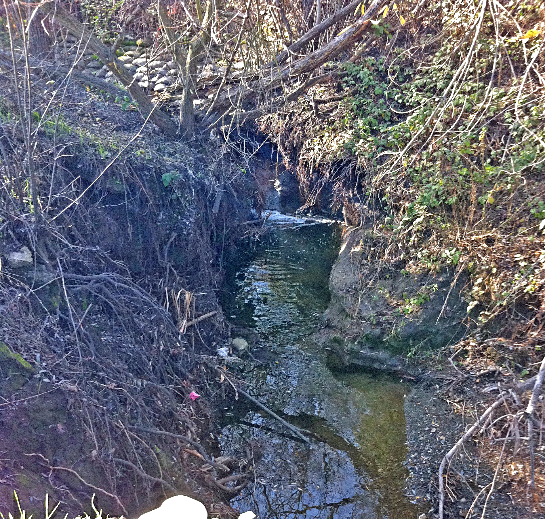 Concretization of Matadero Creek accelerates flows, causing severe channel incision now threatening Page Mill Road above I280